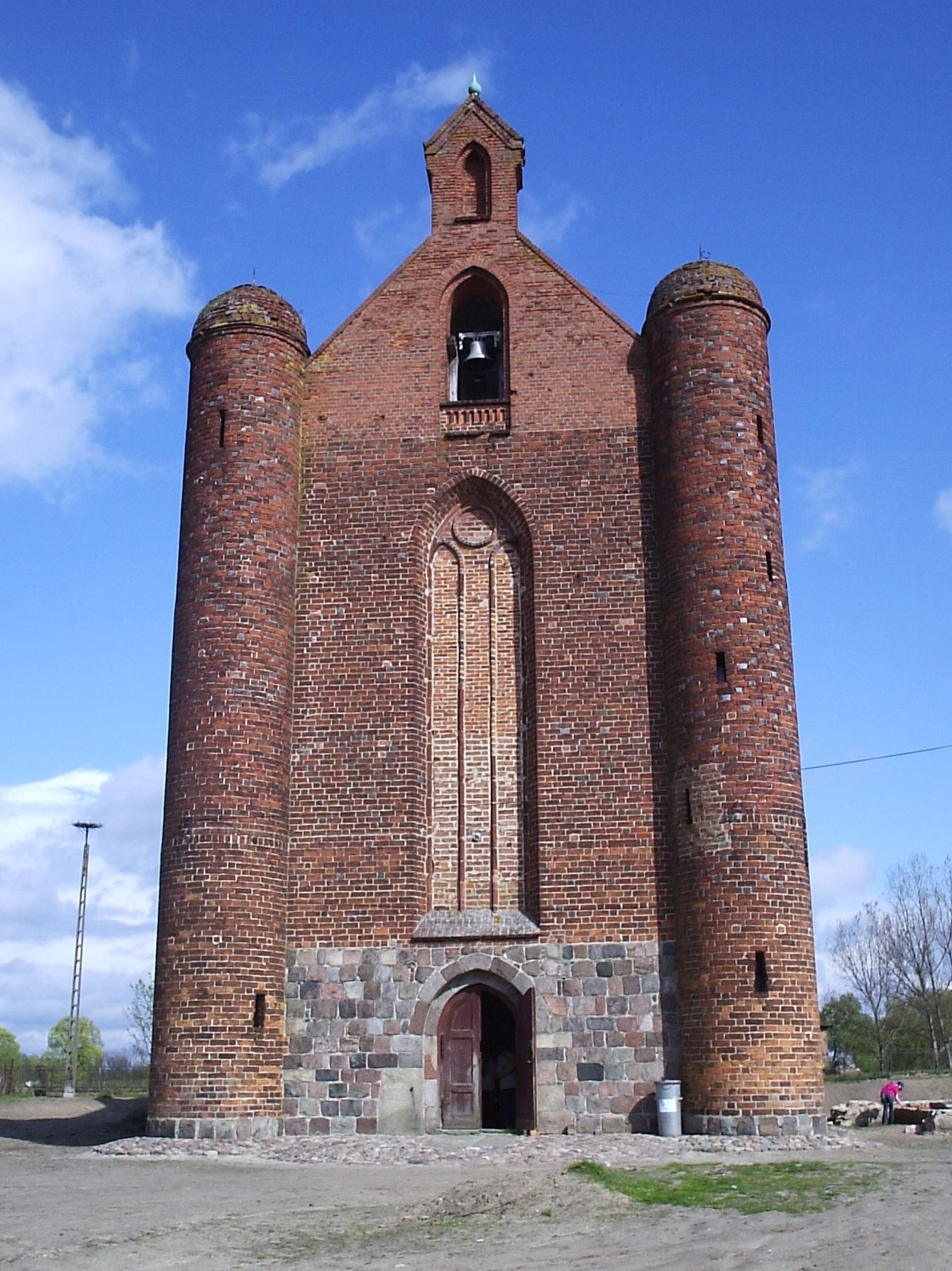 Church Knights Templar in Chwarszczany (Quartschen), Poland